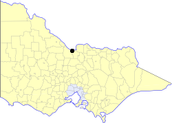 Location of the City of Echuca (pre-1994) within Victoria.